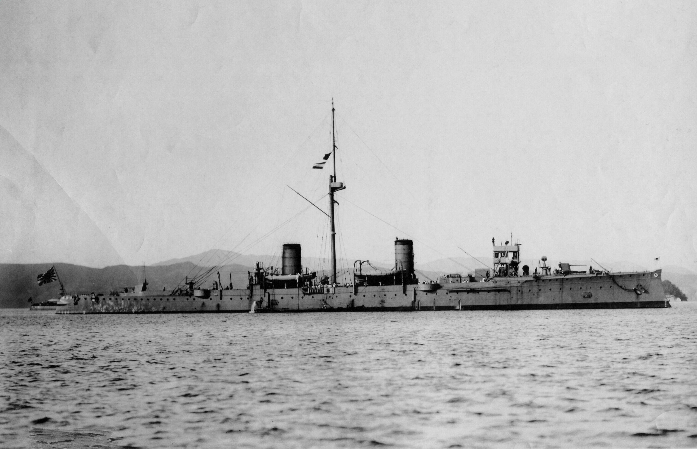 Imperial Japapese cruiser Suzuya at Kure, 7 November 1908.